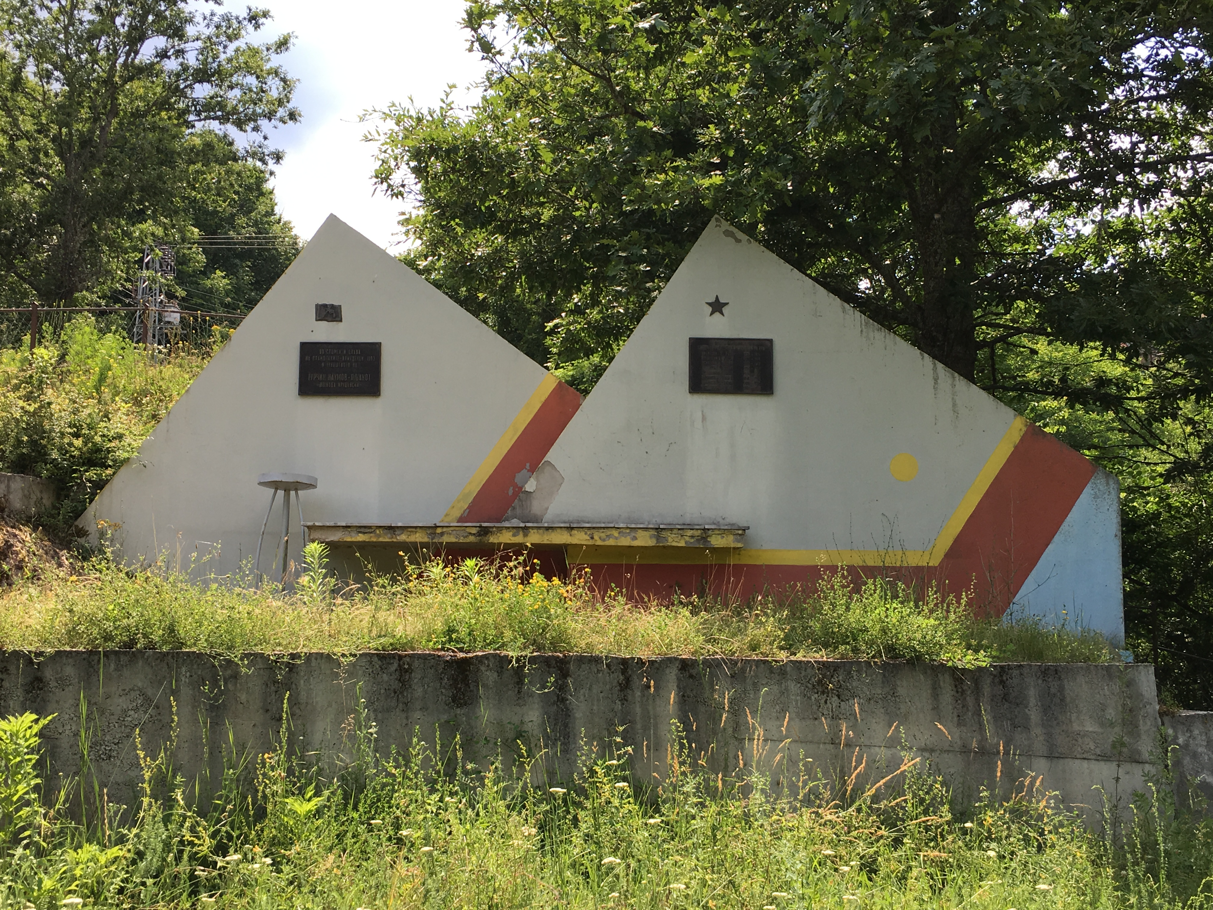 Ilinden-Preobrazhenie Uprising (left) and World War II (right) monuments in the village of Slansko